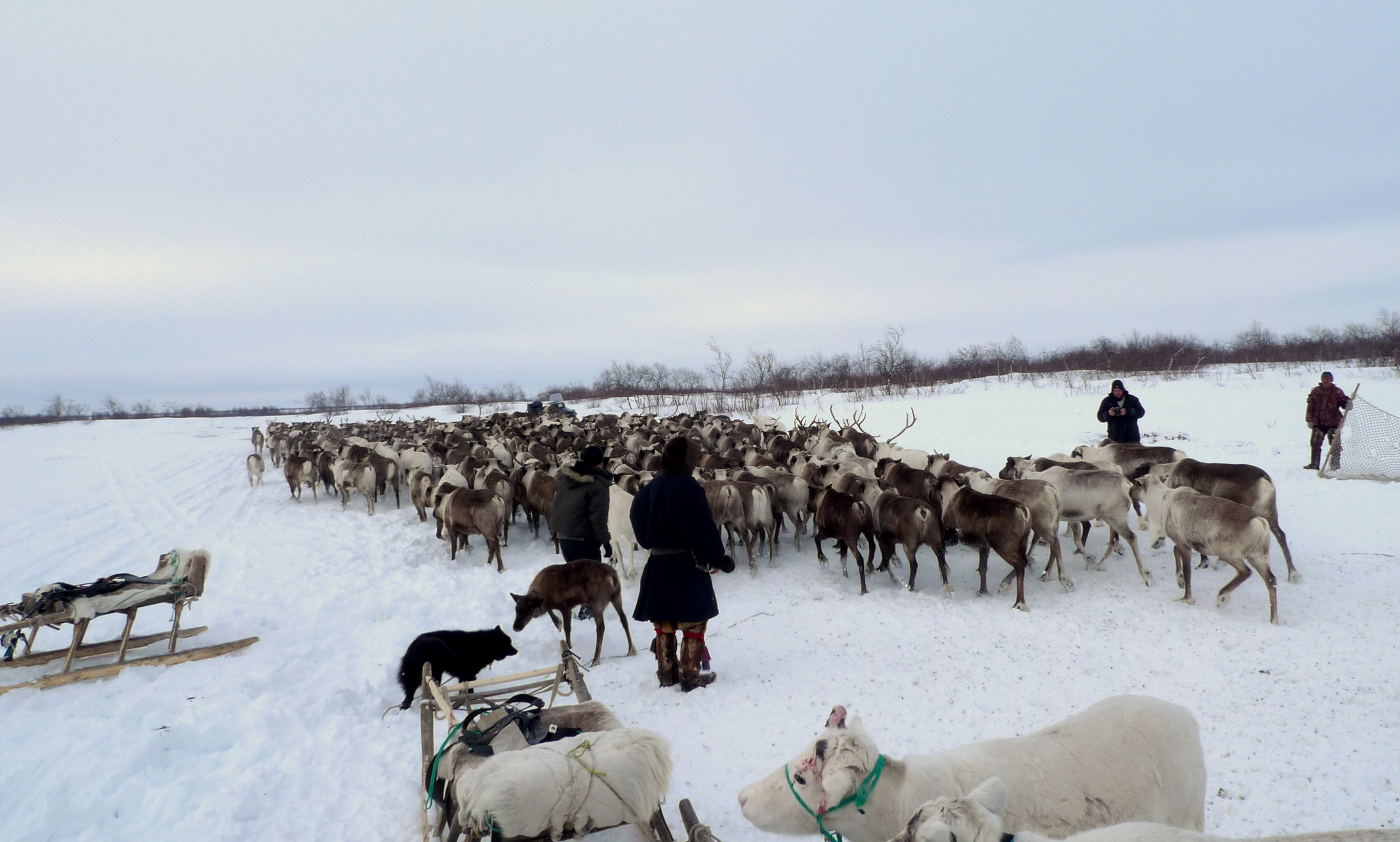 naryan mar, russia Location: Naryan-Mar.